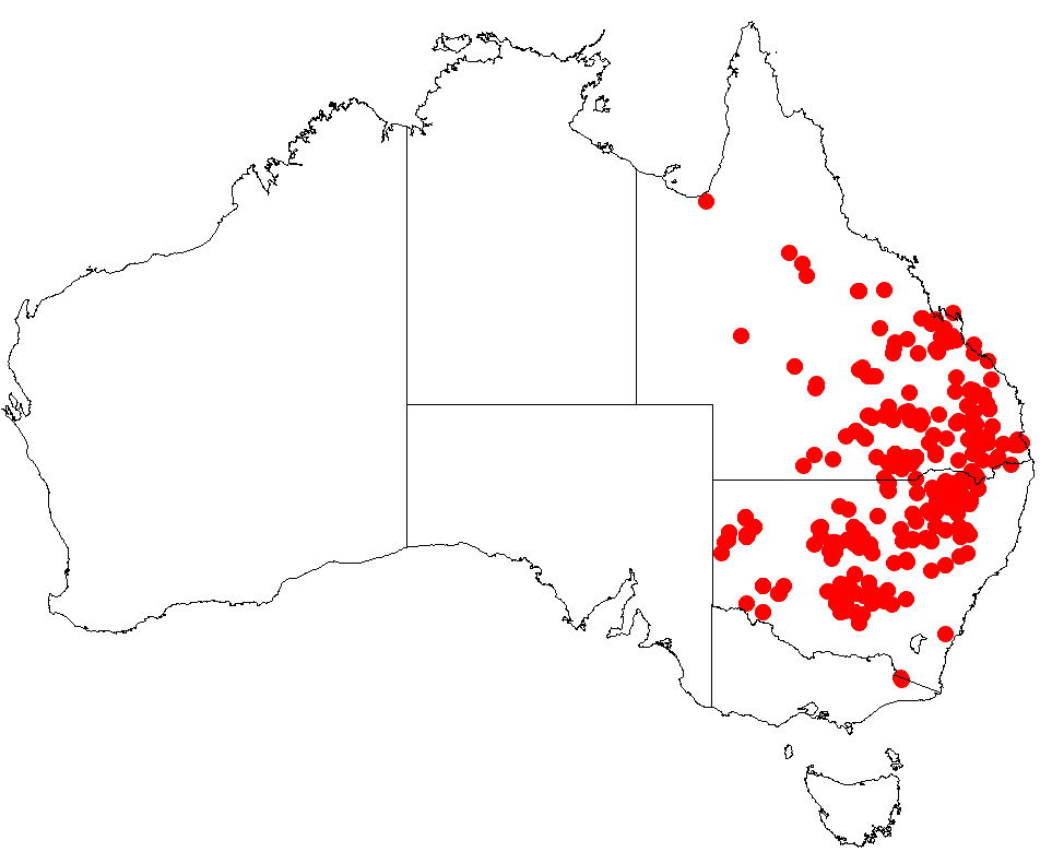 Parsonsia eucalyptophylla occurrence data downloaded from Australasian Virtual Herbarium on 21 December 2018 from